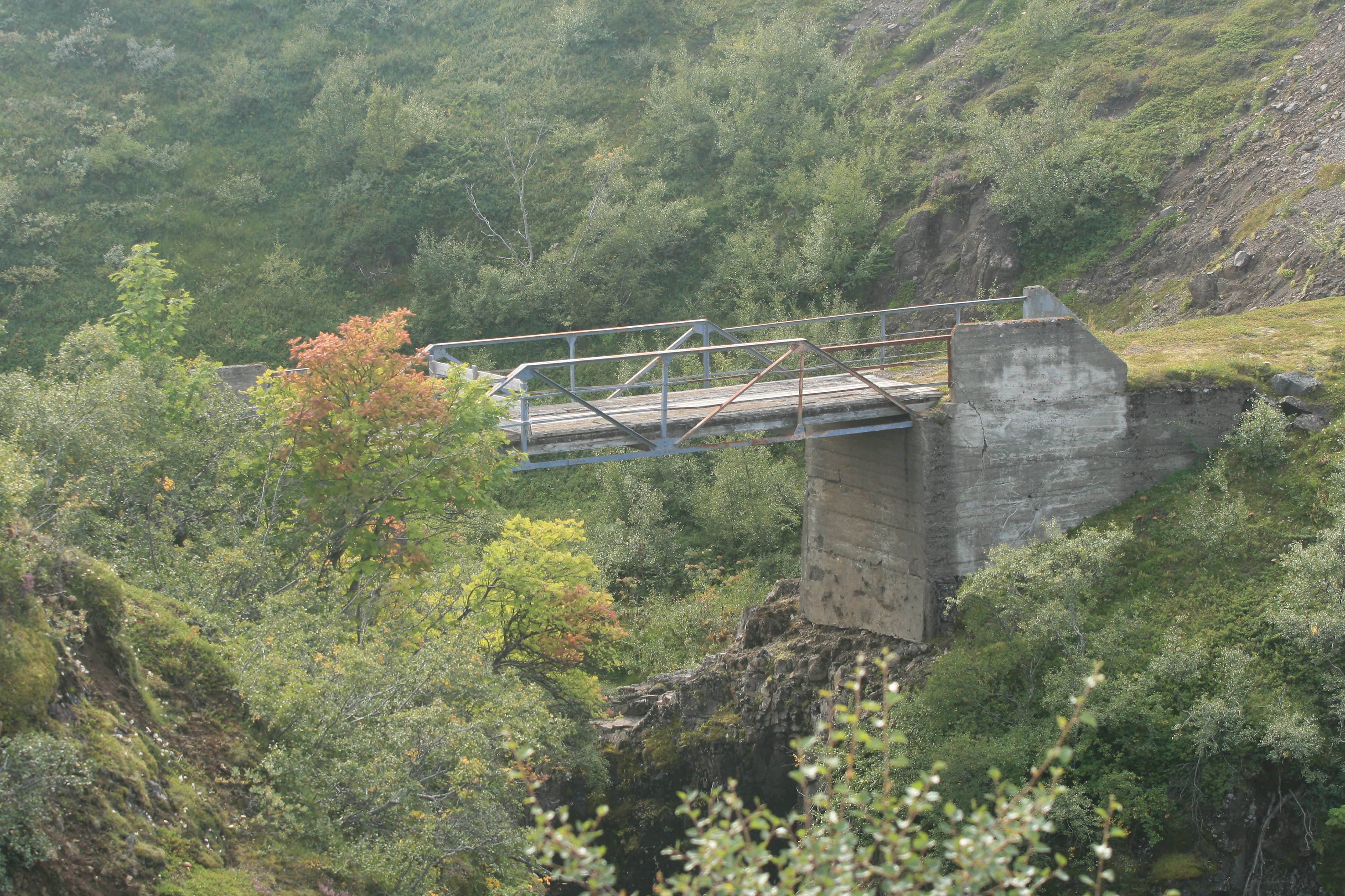 Eastern Region, Iceland